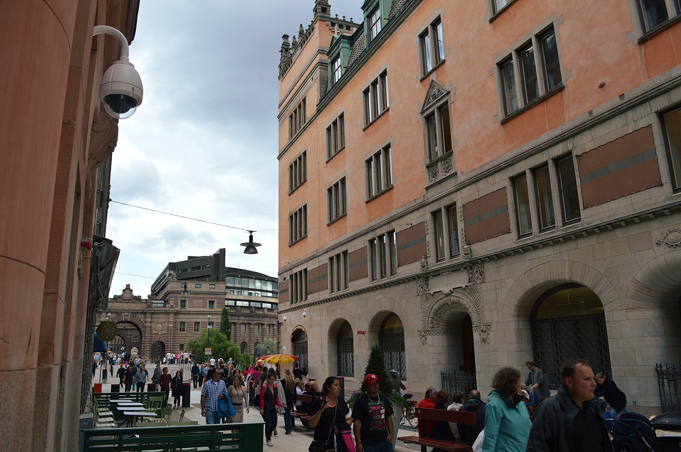 Surveillance camera in Stockholm, with the parlament building in the background. The house on the right is Rosenbad, the Swedish prime minister's office.